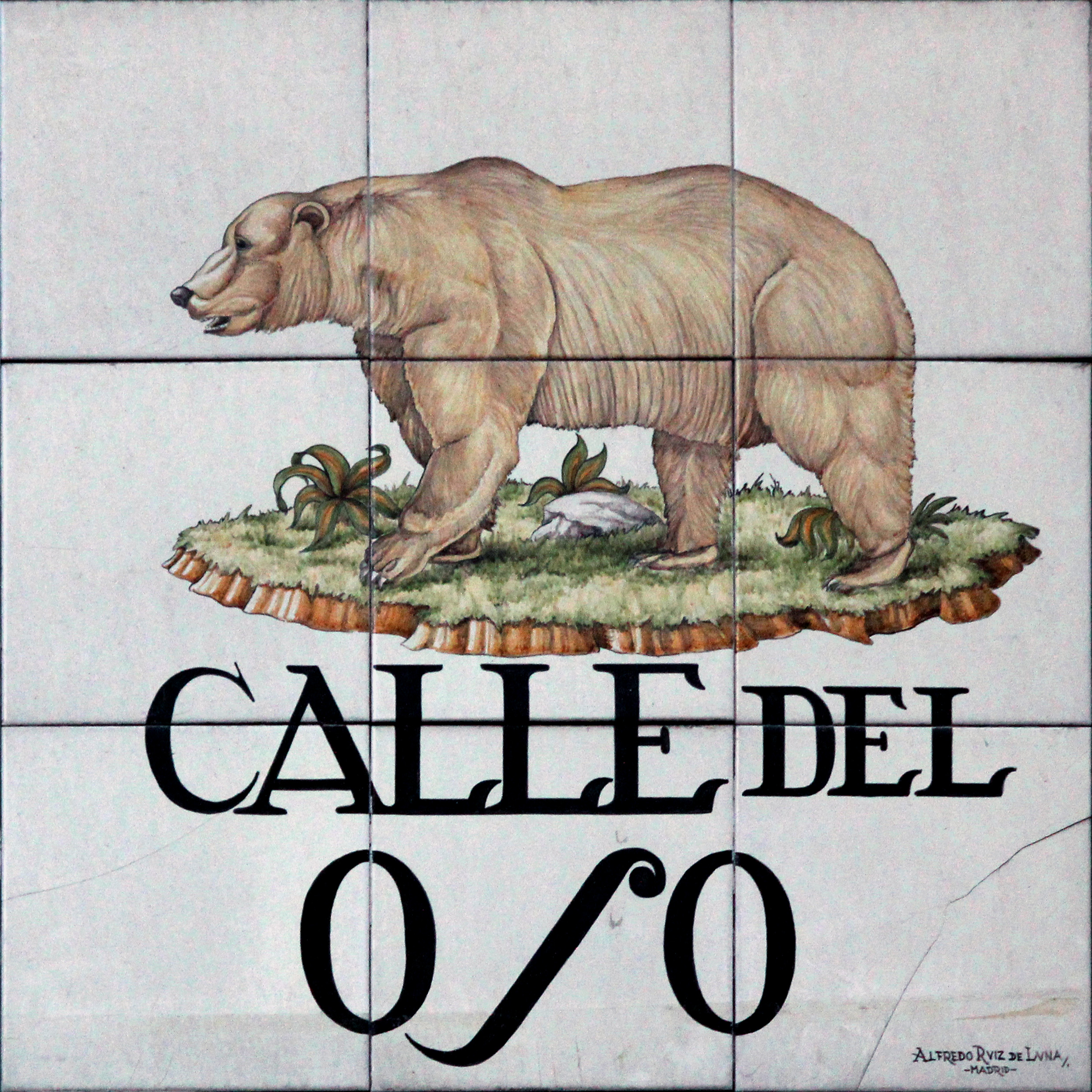 Sign of Calle del Oso (literally "Bear Street") in Embajadores neighborhood in Madrid (Spain).